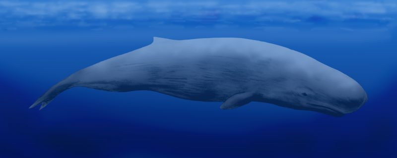 Brygmophyseter shigensis (aka as Nagacetus shigensis), a sperm whale from the Mid Miocene of Japan. Digital. Fossilworks PaleoDB link: Brygmophyseter shigensis (Hirota and Barnes 1995)